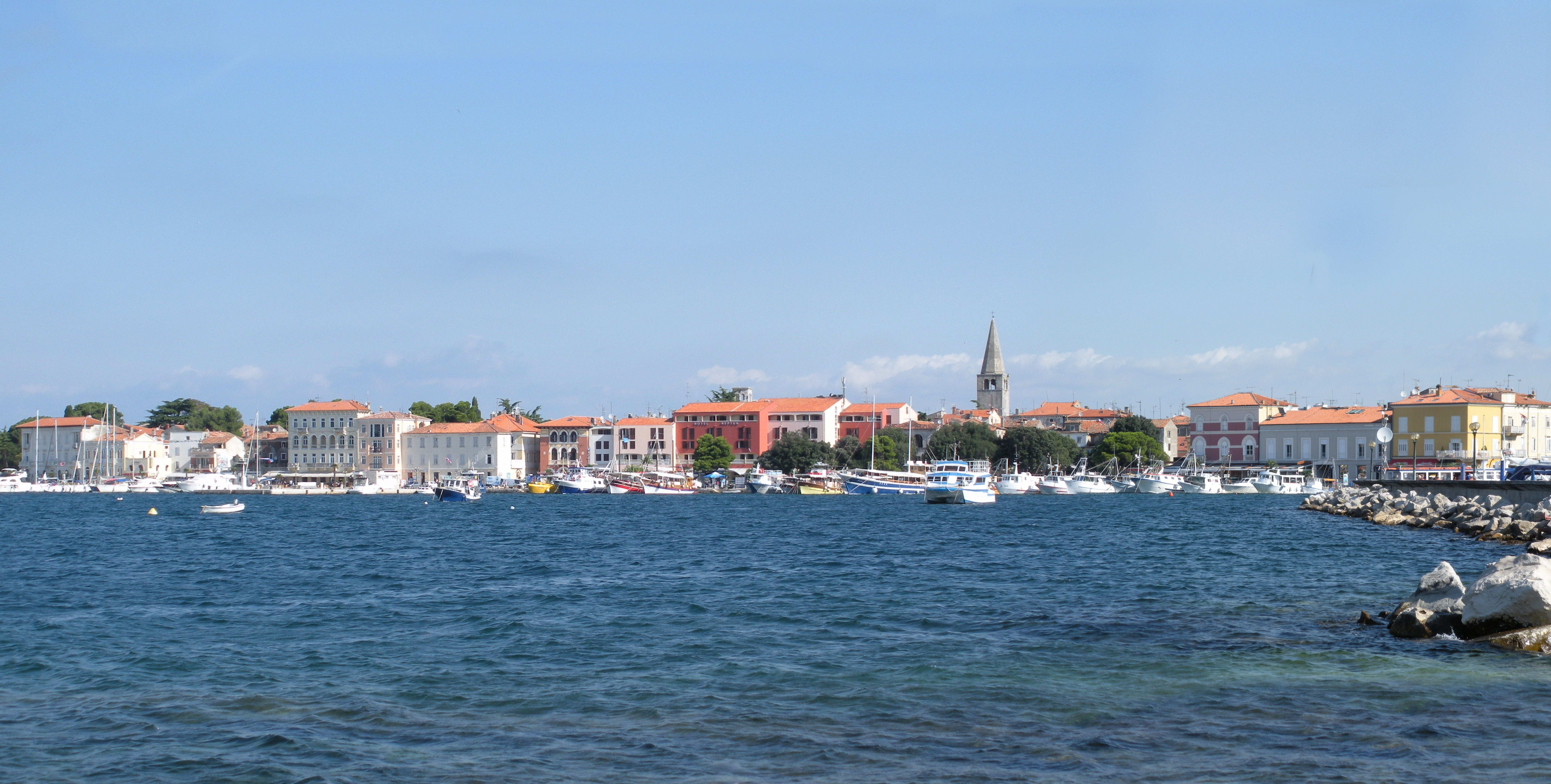 Porec, Croatia, harbour view, taken by uploader on visit 2008